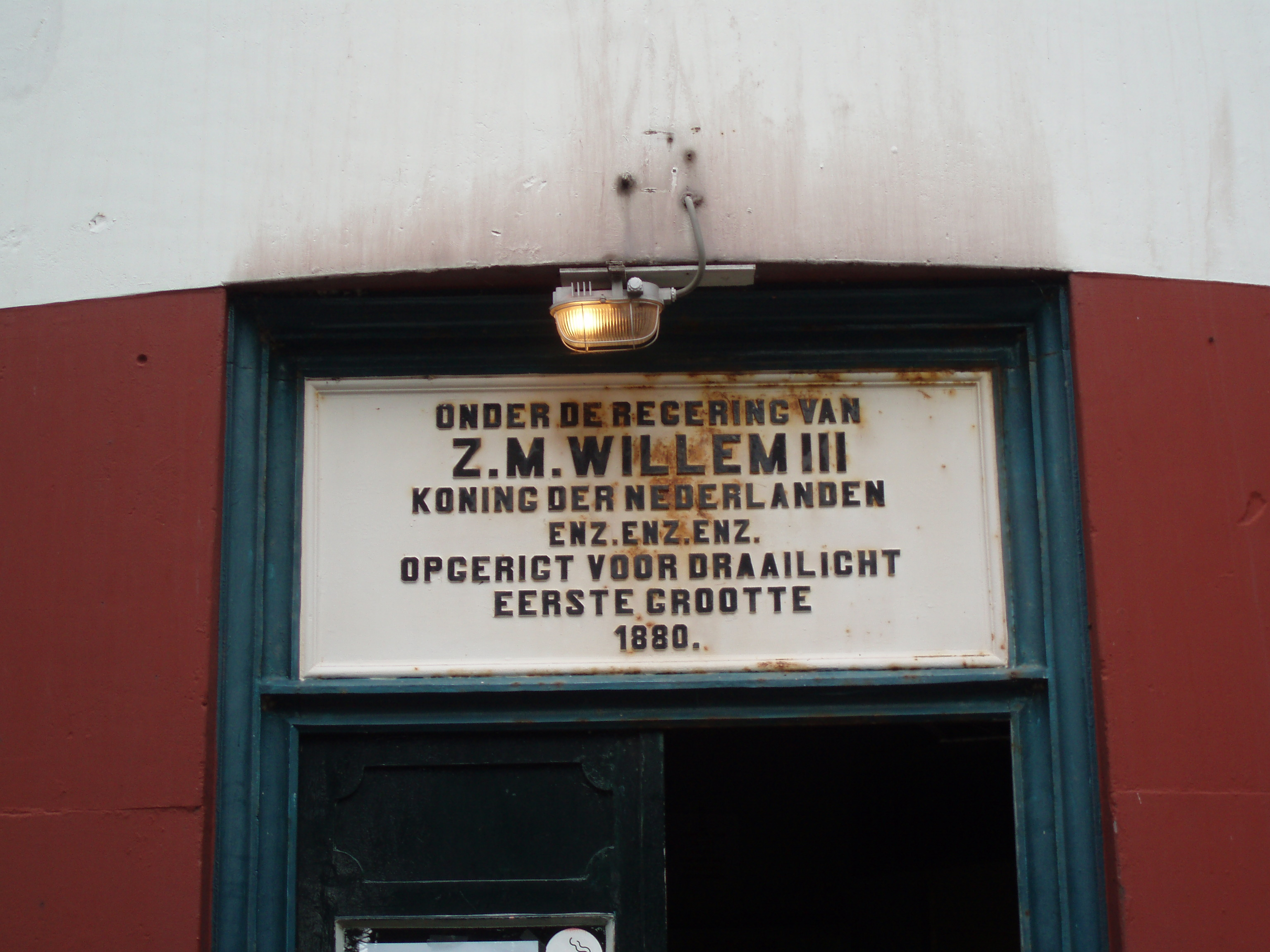 Lighthouse Ameland entrance, Netherlands, museum